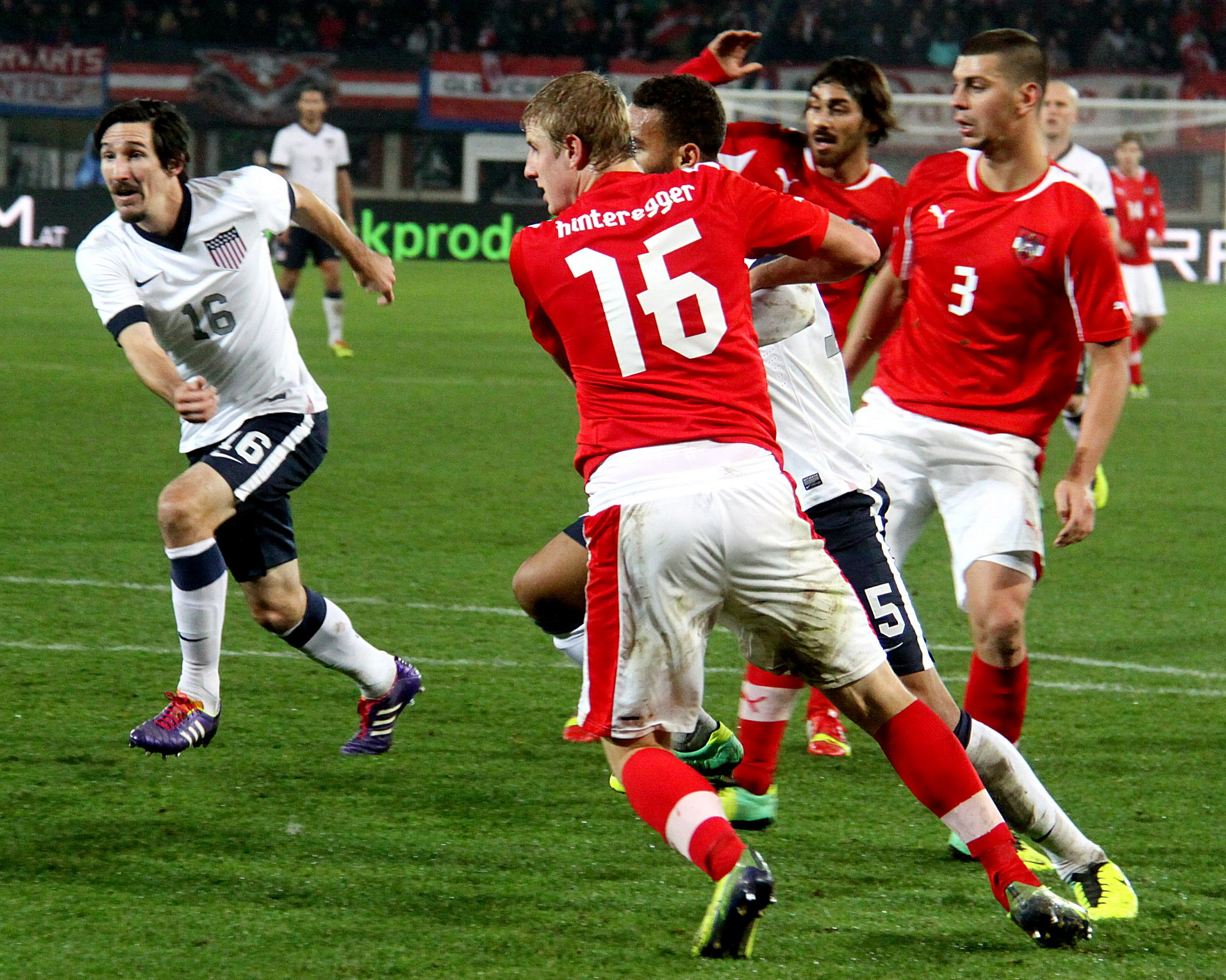 Friendly-match Austria (red Shirts) vs. USA (white shirts) (1:0) in the Ernst-Happel-Stadion in Vienna at 2013-03-22. – The photo shows Sacha Kljestan, Martin Hinteregger (behind Terrence Boyd), Veli Kavlak and Aleksandar Dragović.